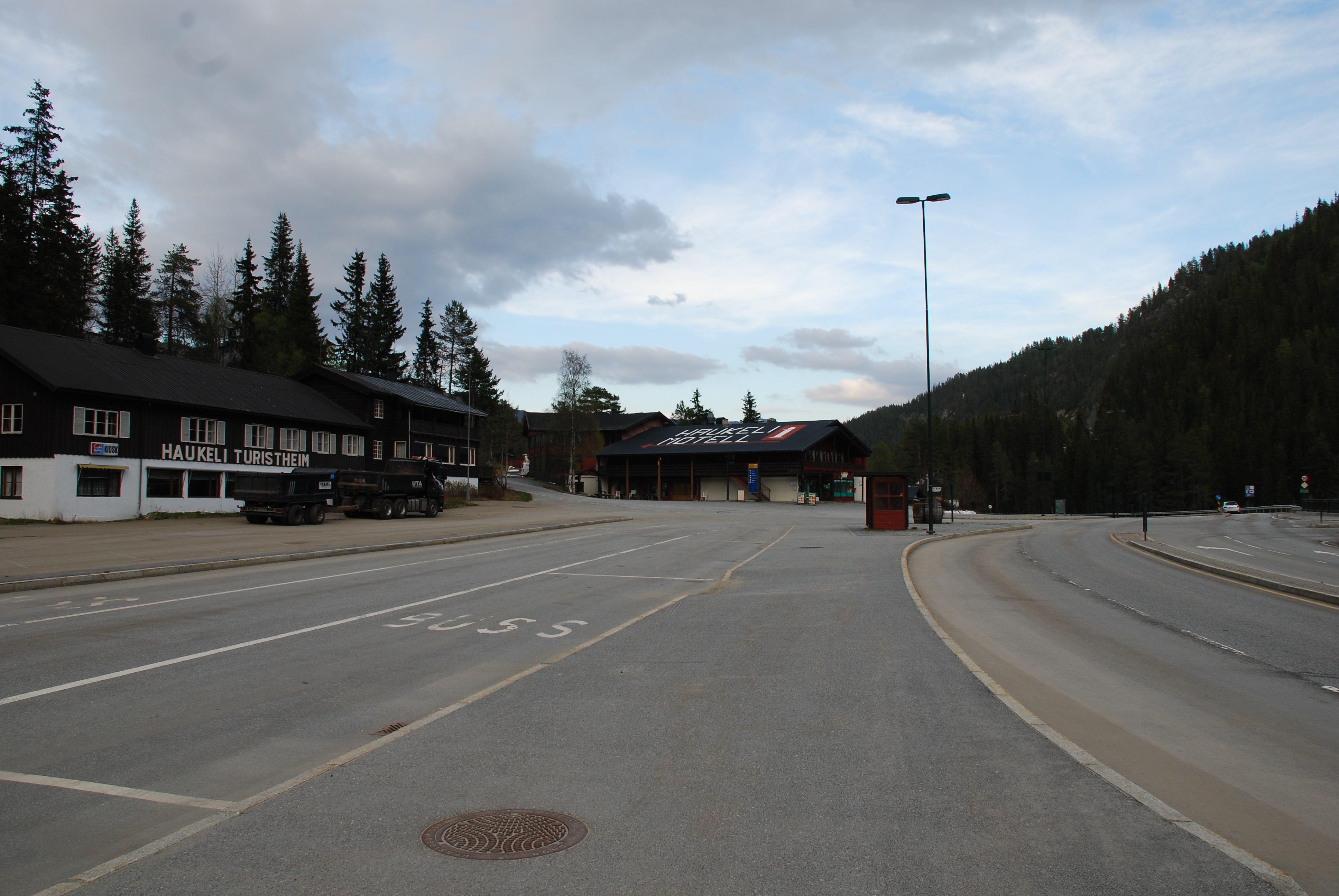 Haukeli hotel